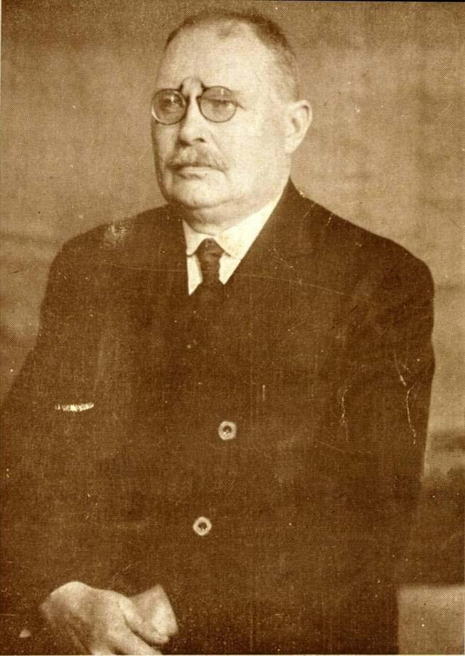 Christfried Jakob (nationalized Argentinian as Christofredo Jakob)